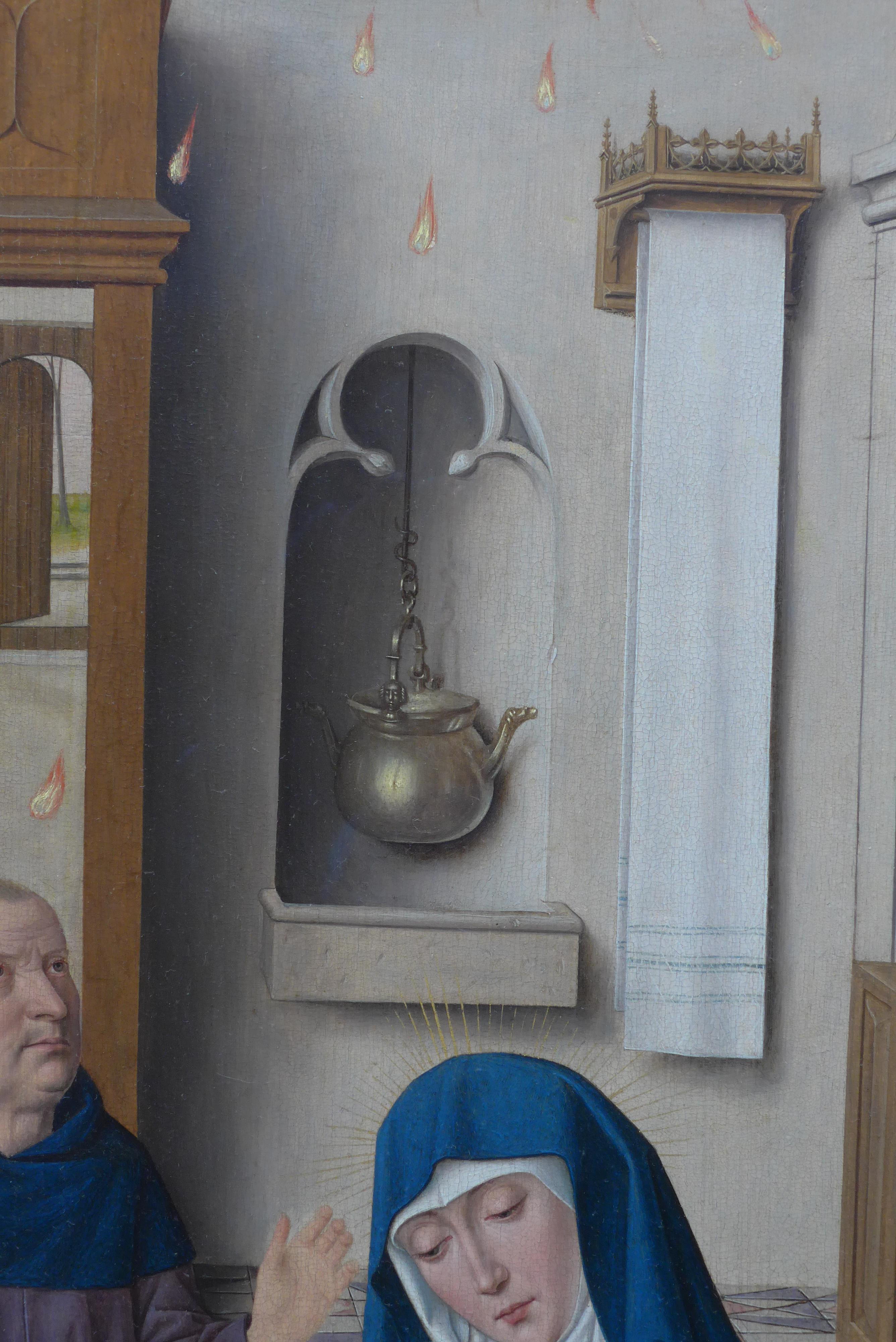 Handfass. Mittelalterliche Darstellung eines Gießgefäßes zum Händewaschen auf einem Ölgemälde mit Darstellung des Pfingstwunders des "Meisters der Baroncelli-Porträts" (Detail). Brügge, um 1485-1490. Brügge, Groeninge-Museum.